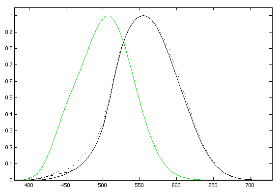 Graph of photopic luminosity function (black) including CIE 1931 (solid), Judd-Vos modified (dashed), and Sharpe, Stockman, Jagla & Jägle 2005 (dotted); and scotopic luminosity function, CIE 1951 (green). Using data from: – Sharpe, Stockman, Jagla & Jägle – Judd–Vos – CIE 1931, the Y column of XYZ data – Scotopic The horizontal axis is wavelength in nanometers